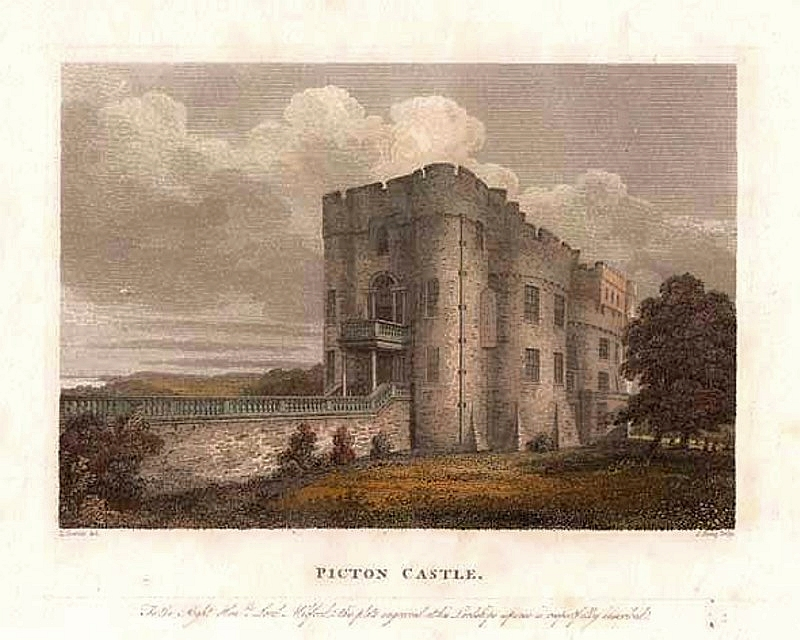 Picton Castle in Pembrokeshire